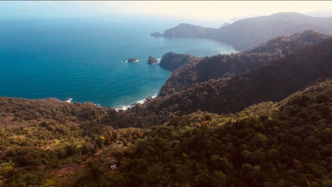 Where the Northern Range meets the Caribbean Sea to the north.